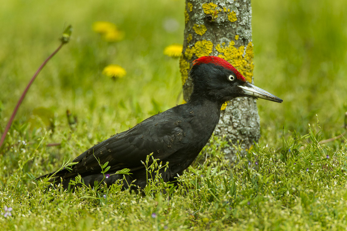 Black Woodpecker taking an ant bath - HungaryCS4E4536